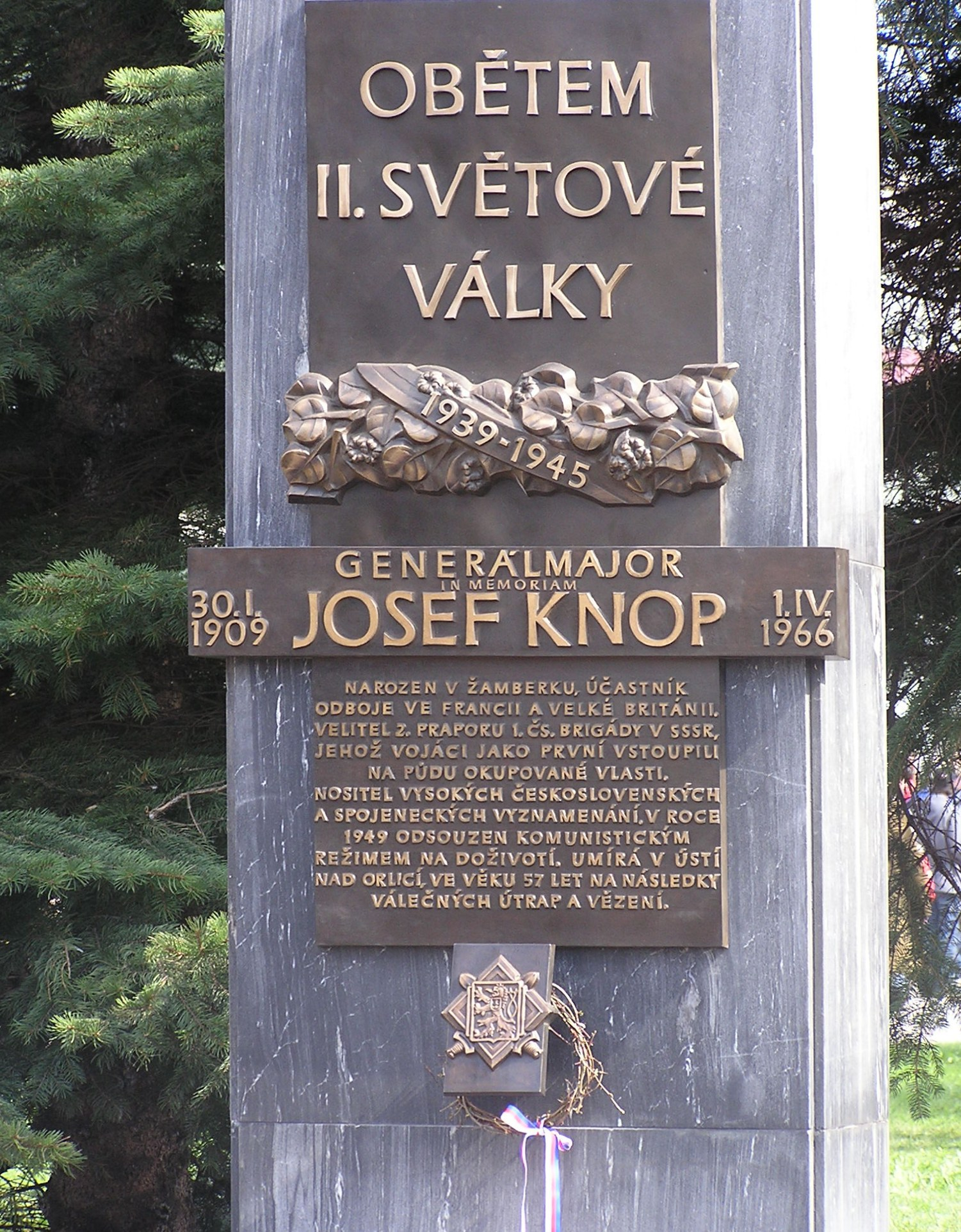 Memorial of Josef Knop, Žamberk